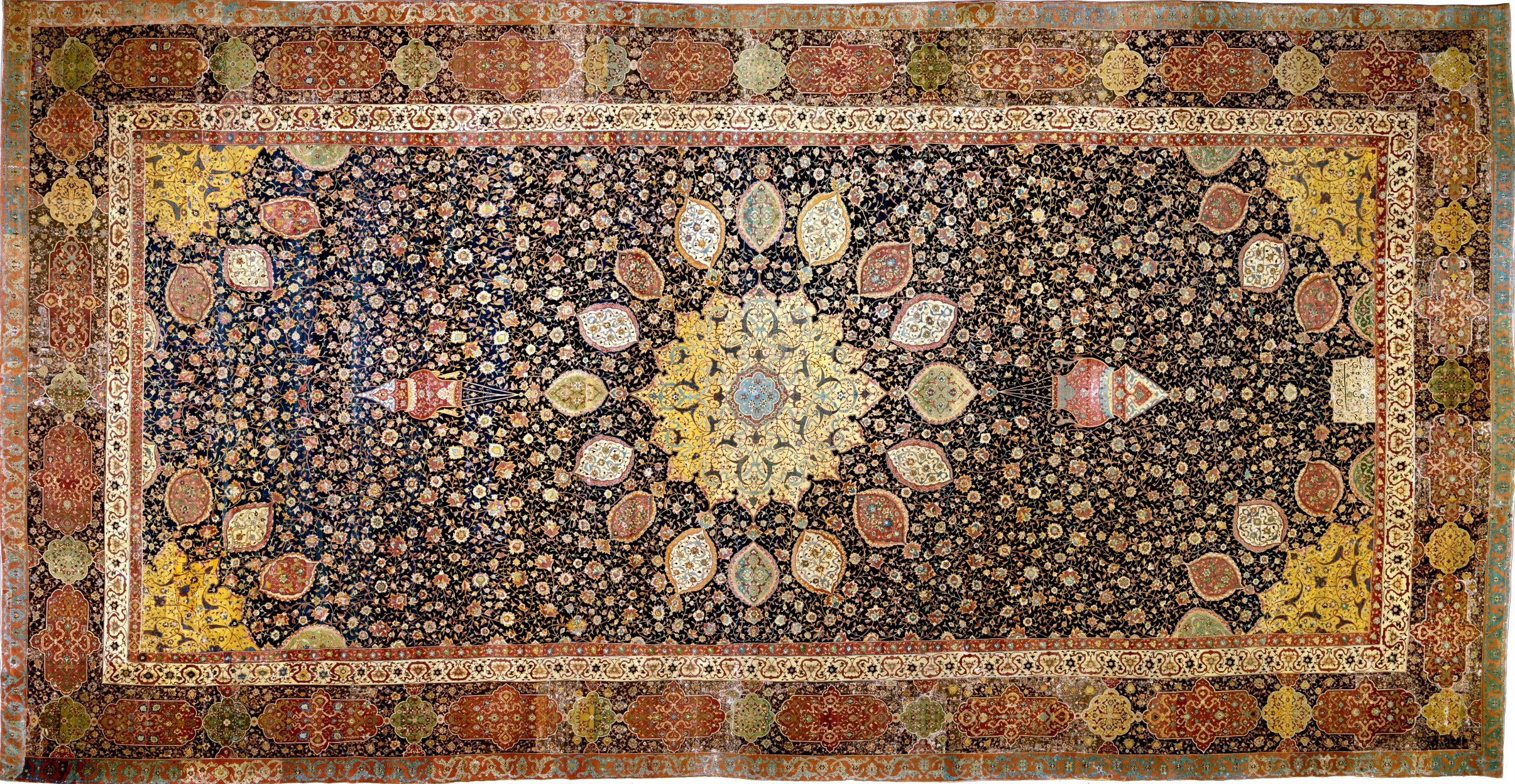 Derived from File:Ardabil Carpet.jpg